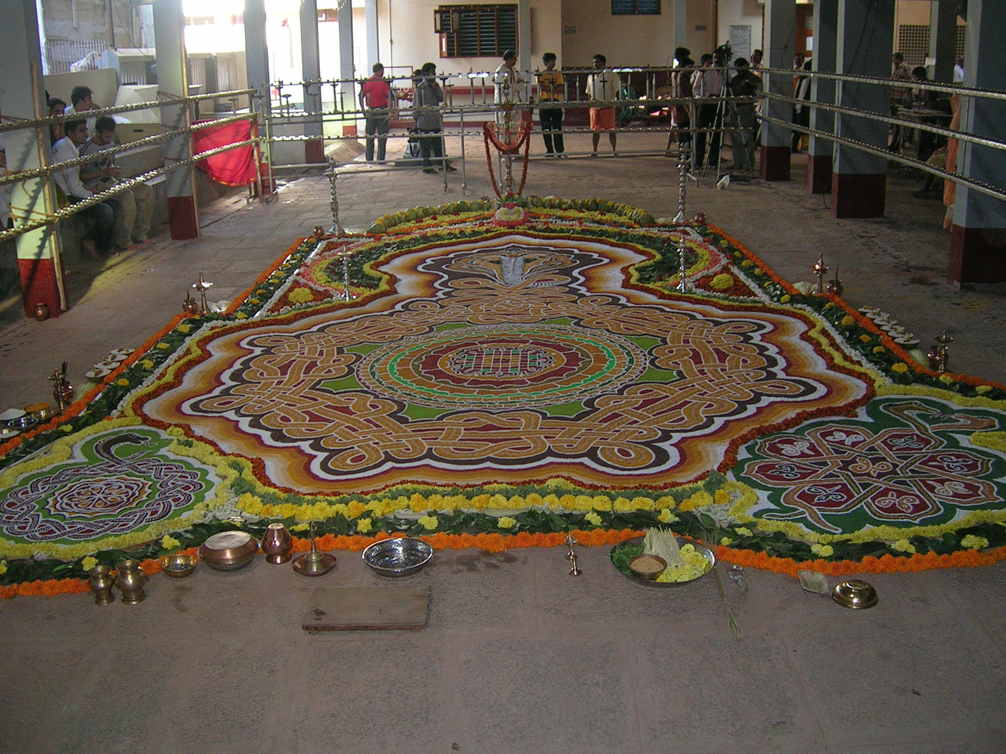 Naga Tanu Prasanna Puja Mandala. A Mandala drawn during nagamandala.